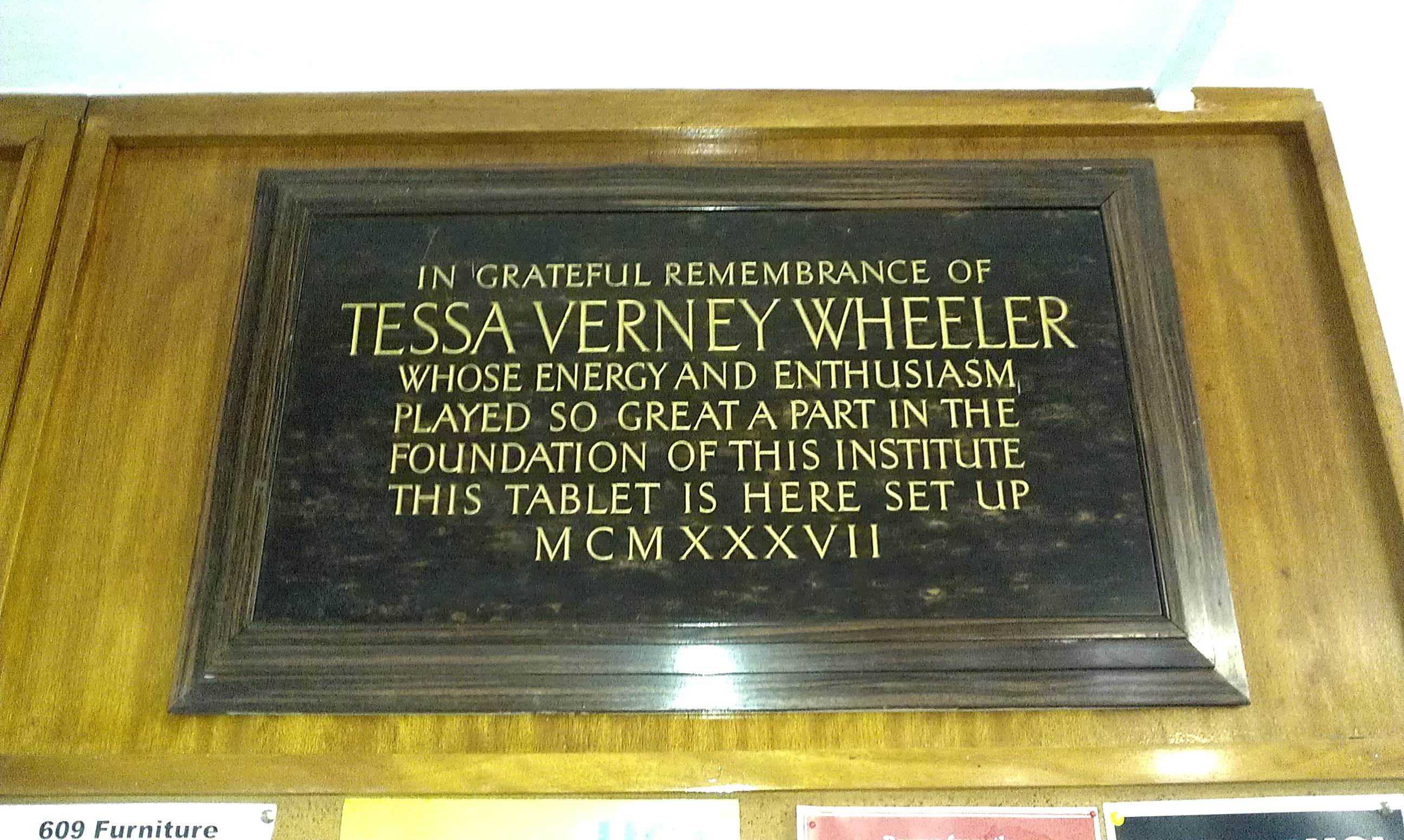 A memorial to Tessa Wheeler erected in the UCL Institute of Archaeology, London Borough of Camden.